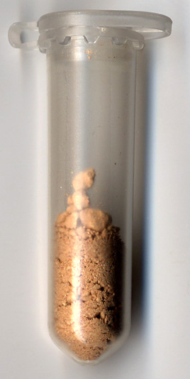 Diatomite of Japanese charcoal brazier (Shichi-rin)